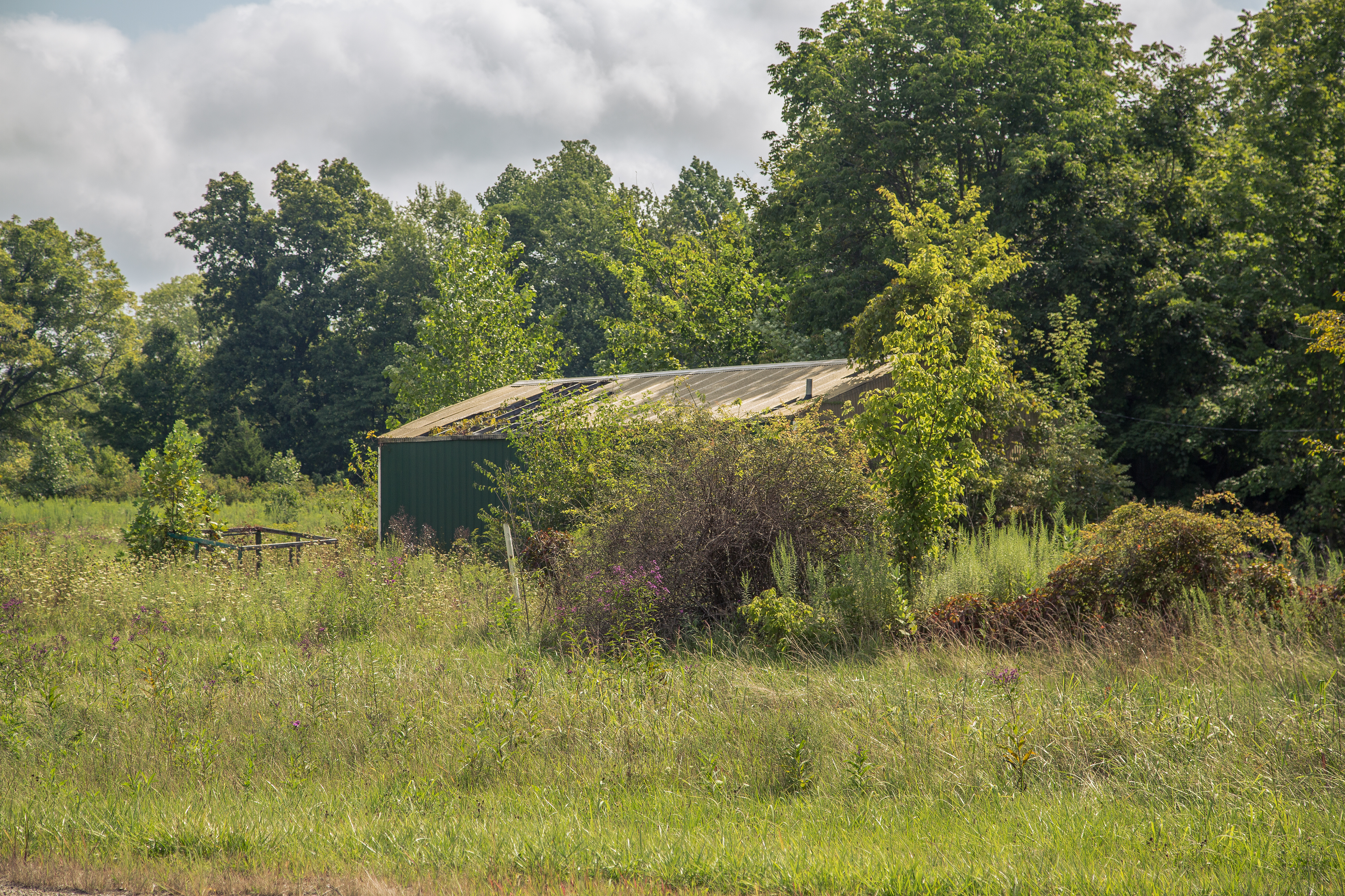 Photo from Small Town Indiana photo survey.